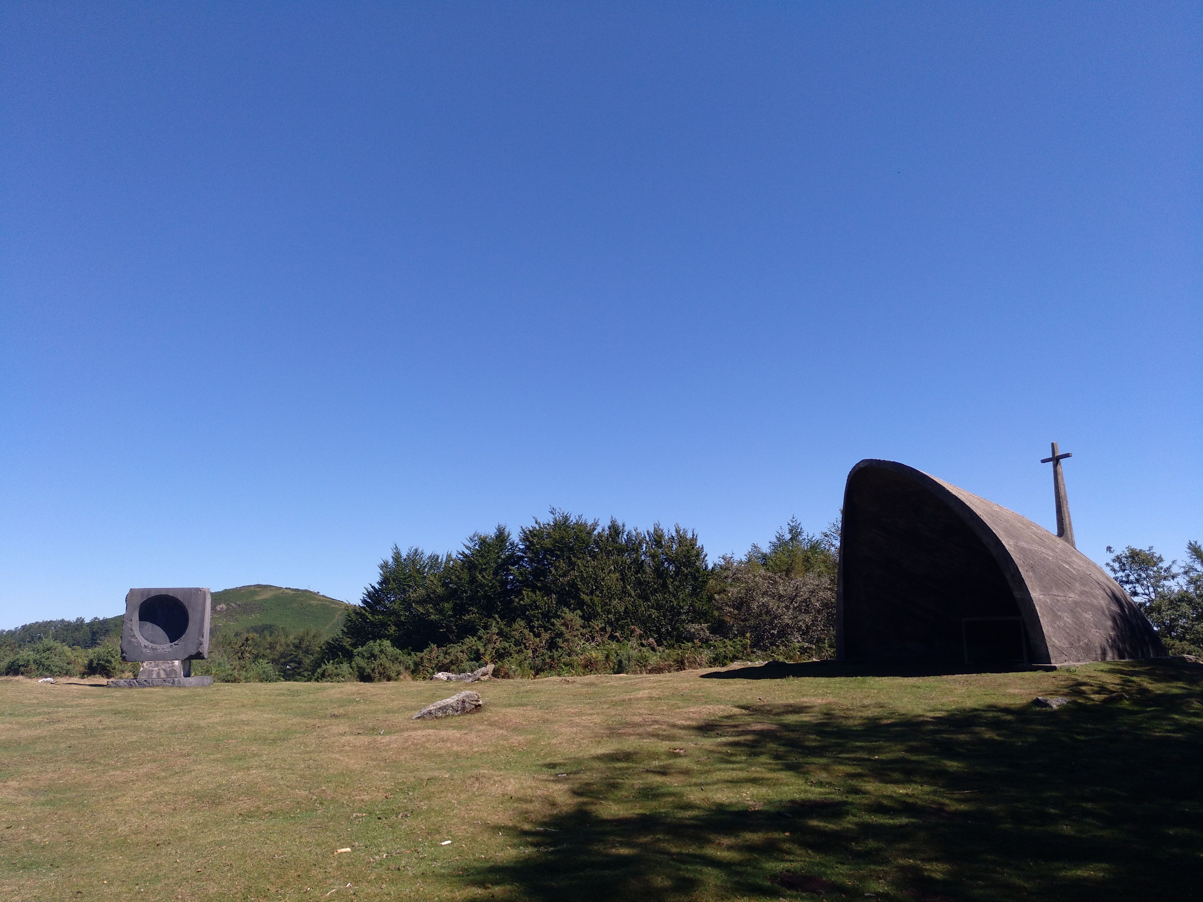 Monument dedicated to Aita Donostia on Agina Hill